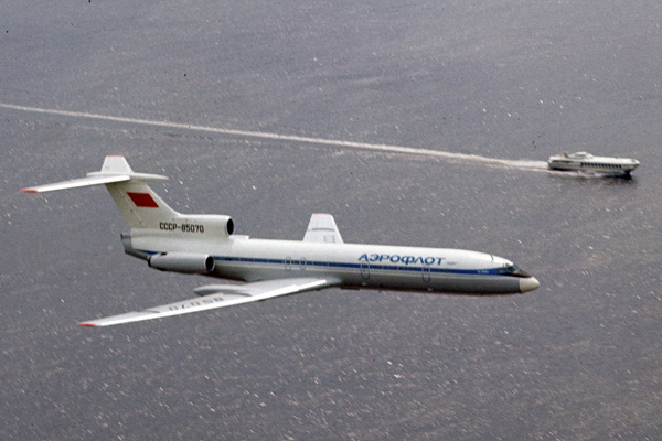 “TU154 serial passenger aircraft”. TU­154 serial passenger aircraft flying over the Volga River.